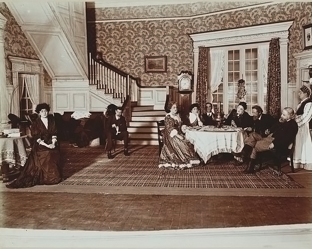 Photograph shows actress Bertha Kalich (left) as Miriam Friedlander in "The Kreutzer Sonata," a play based on a story by Leo Tolstoy, adapted from Yiddish play "Jacob Gordin" by Langdon Mitchell. Performed on Broadway in 1906.